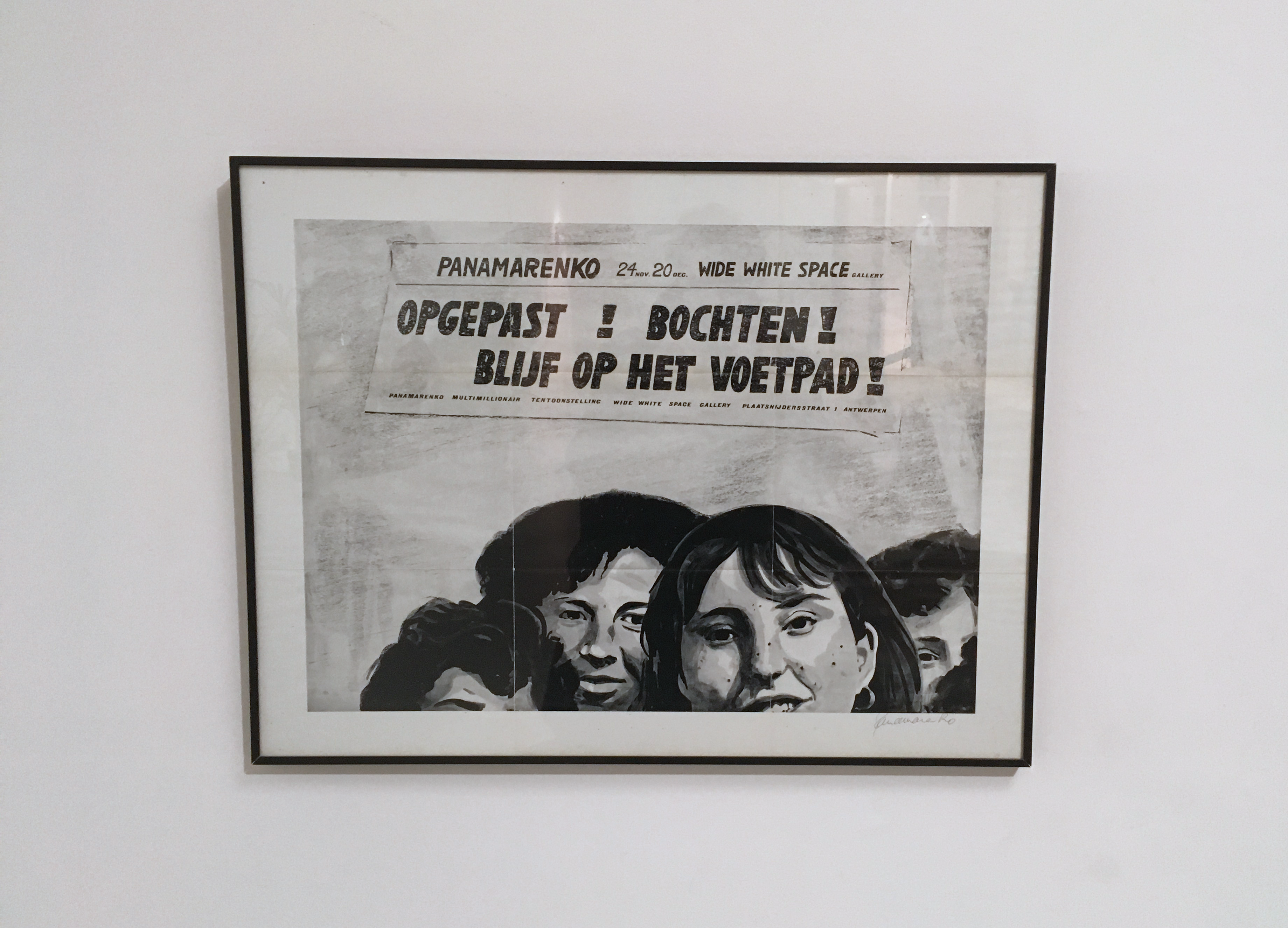 Framed poster by Antwerp artist Panamarenko for the exhibition "Attention! Curves! Stay on the sidewalk!" in Wide White Space that ran from November 20 to December 24, 1967. The poster measures 76 by 58 cm. The poster states "Panamarenko Multimillionaire Exhibition Wide White Space Gallery Plaatsnijdersstraat 1 Antwerp". Panamarenko painted this poster himself.